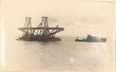 The pillar of Kerch Strait bridge (1944)